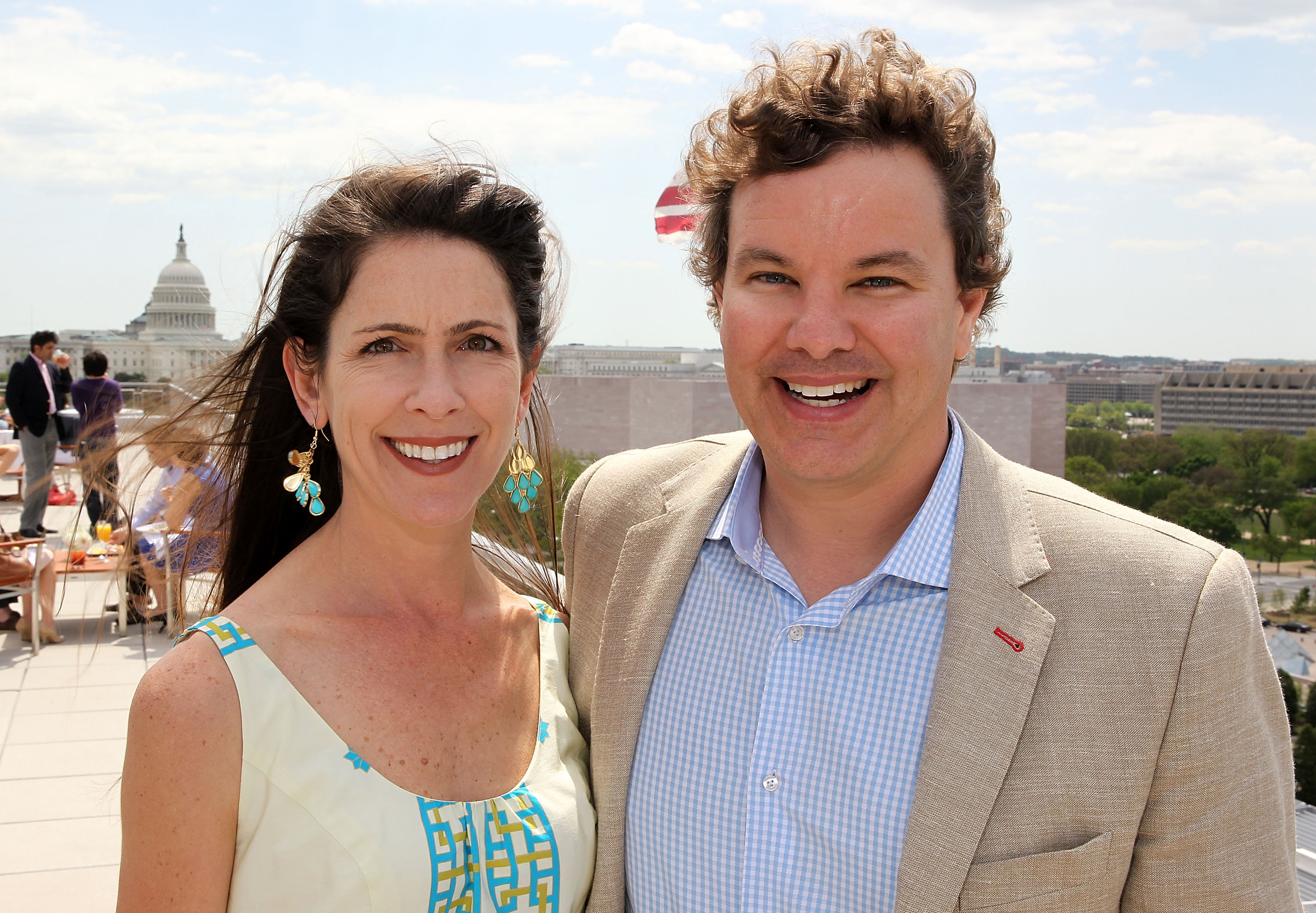 WASHINGTON, DC - MAY 04: Amy Bonforte and Jeff Bonforte, SVP, Communications Products, Yahoo, attend the Yahoo News/Tumblr White House Correspondents Dinner Brunch at The Newseum on May 4, 2014 in Washington, DC. (Photo by Paul Morigi/Getty Images for Yahoo News)